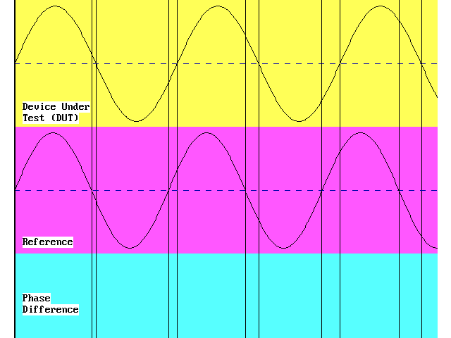 A comparison of the phase of two waveforms, usually of the same nominal frequency. In time and frequency metrology, the purpose of a phase comparison is generally to determine the frequency offset of a device under test (DUT) with respect to a reference. A phase comparison can be made by connecting two signals to a two-channel oscilloscope. The oscilloscope will display two sine waves, as shown in the graphic.